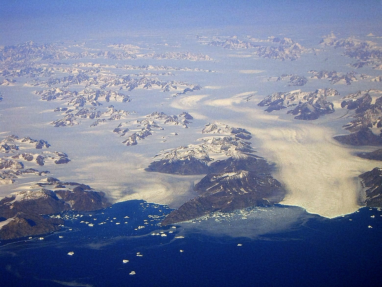 K.I.V. Steenstrups Søndre Bræ on the left and K.I.V. Steenstrups Nordre Bræ glacier on the right, just south of the Ikertivaq Fjord. The spectacular mountain range of the east coast of Greenland, viewed from the Falcon aircraft.